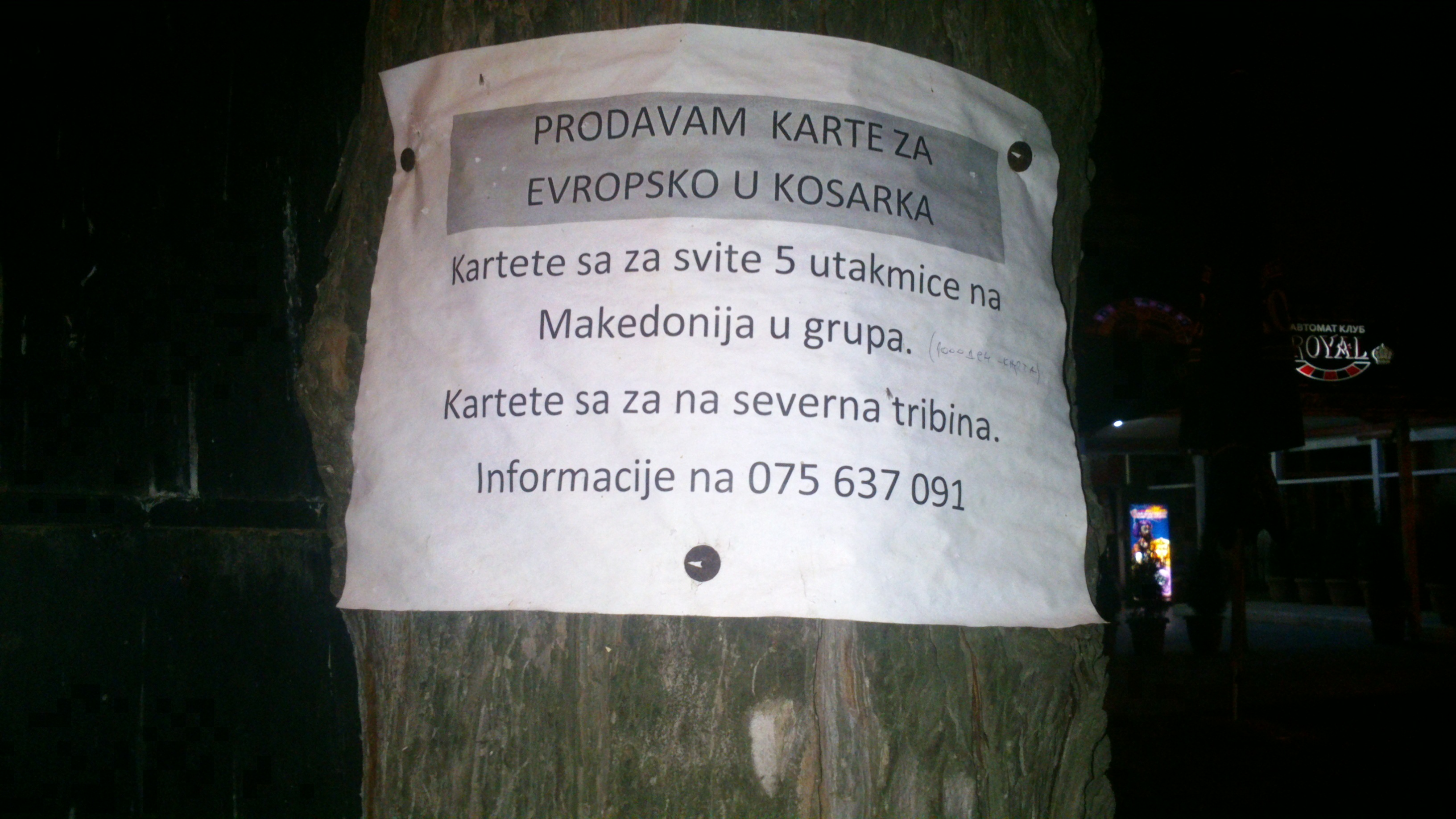 Tetovo dialect of Macedonian